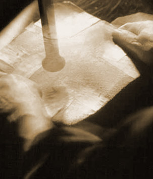 For centuries, gold craftsmen in Japan have used special handmade papers to protect the precious metal they hammered into whisper-thin leafing to enrobe the majestic pavilions of Imperial Japan.